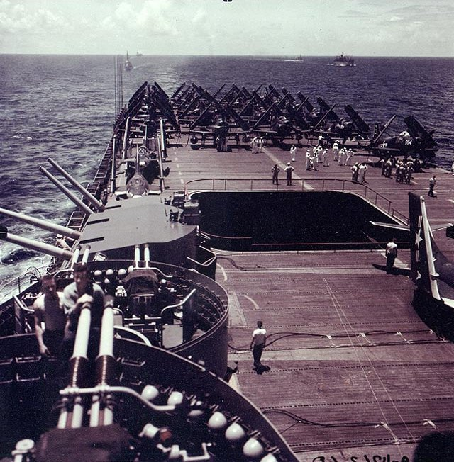 View looking aft from the island of the U.S. Navy aircraft darrier USS Philippine Sea (CVA-47) on 19 July 1955, while Philippine Sea was operating with the Seventh Fleet. Parked on the flight deck are aircraft of Air Task Group 2 (ATG-2): three Grumman F9F-6 Cougar fighters from fighter squadron VF-143 Kingpins, and 21 Douglas AD-5N/AD-6 Skyraider aircraft from composite squadron VC-35 Night Heckers (AD-5N), and from attack squadron VA-55 Warhorses (AD-6).